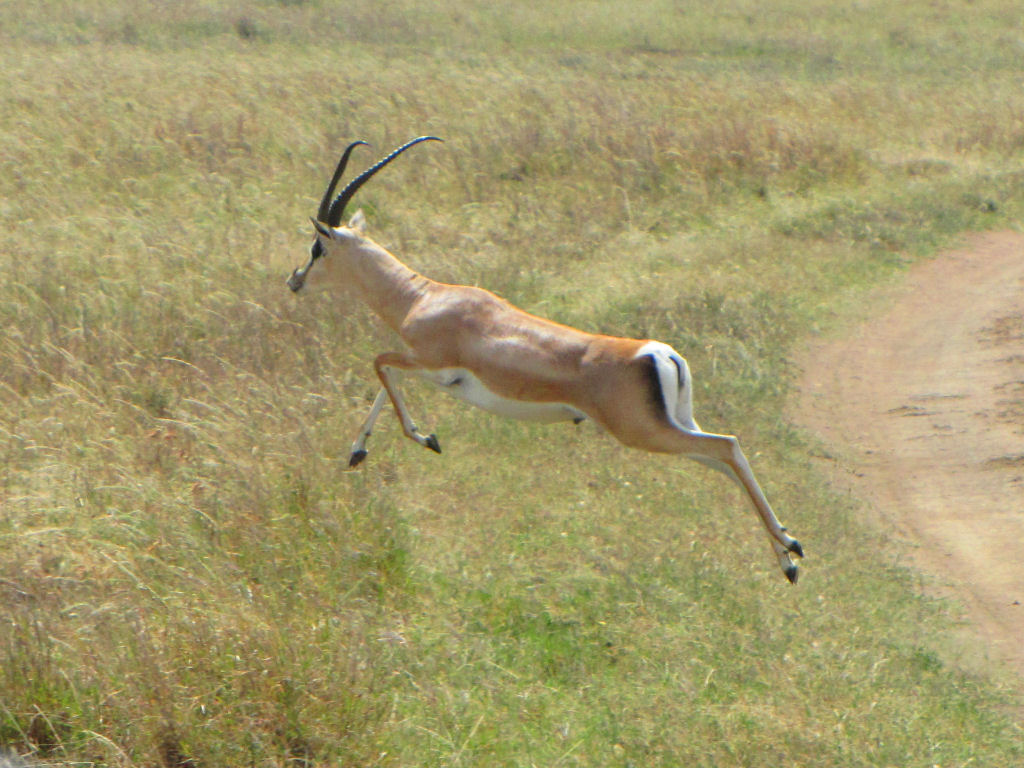 Grant's Gazelles (Nanger granti), Serengeti NP, Tanzania